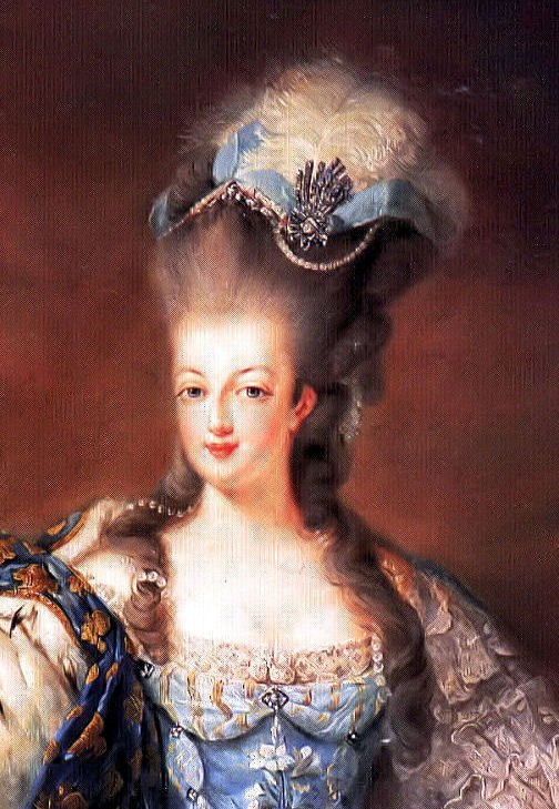 Portrait of Marie-Antoinette of Austria